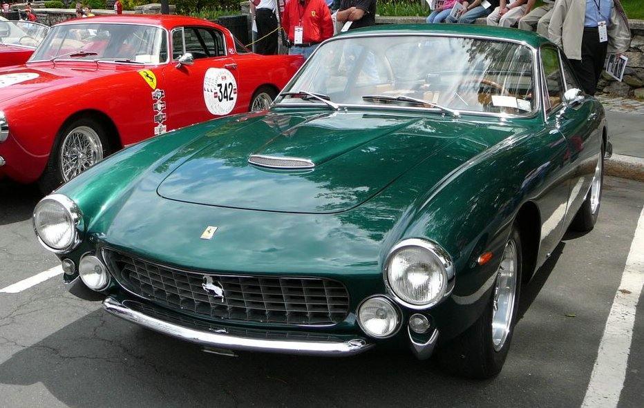 1964 250 GT Lusso Berlinetta.